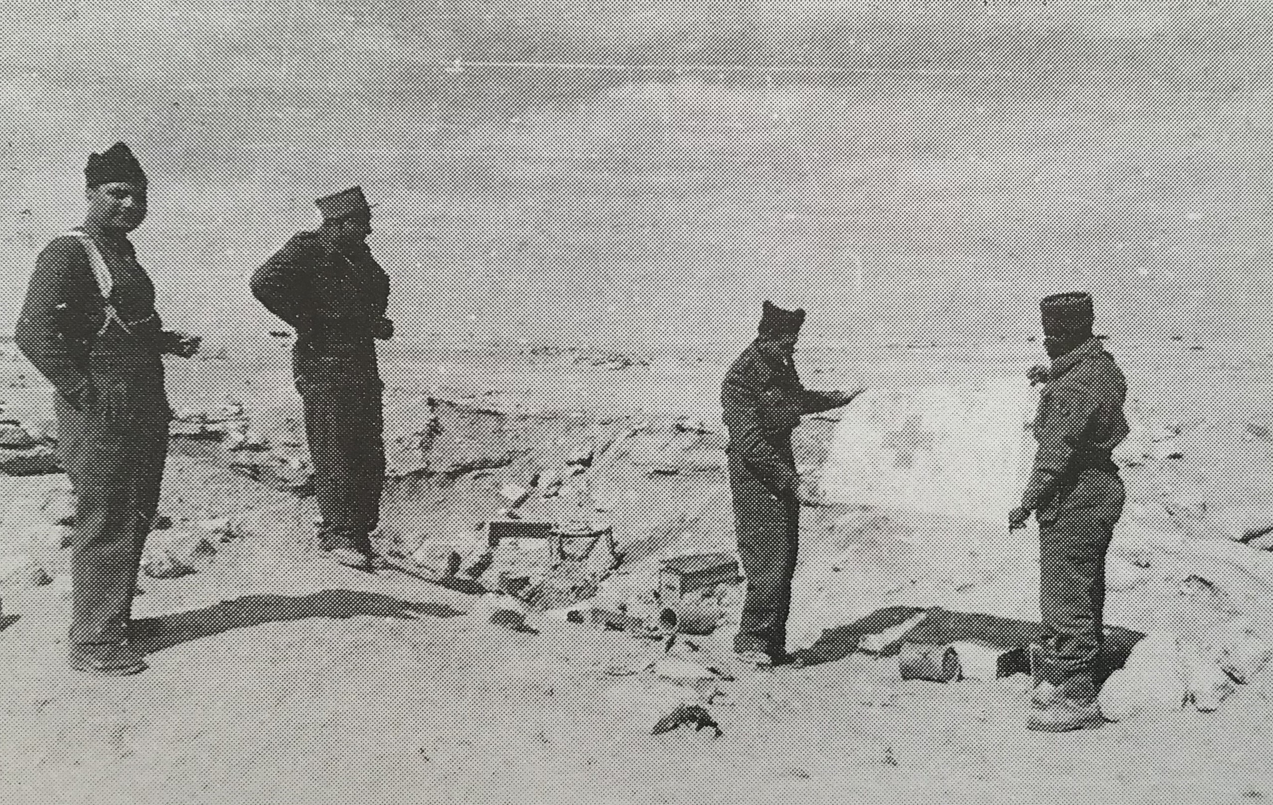 Major Marcel Orsini (on the left) finds in 1942 the pennant of the emergency station of Bir Hakeim